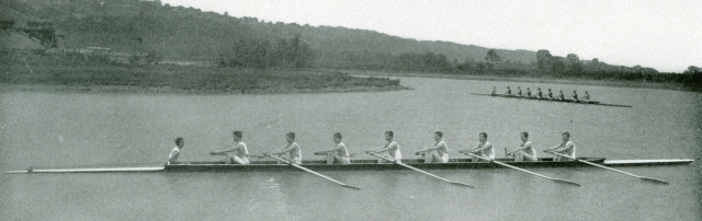 1891 Cornell varsity rowing team:(l to r): E. P. Allen, G. P. Witherbee, A. W. Marston, F. W. Kelley, G. F. Wagner, T. W. Hill, Wolfe, H. A. Benedict, W. Young